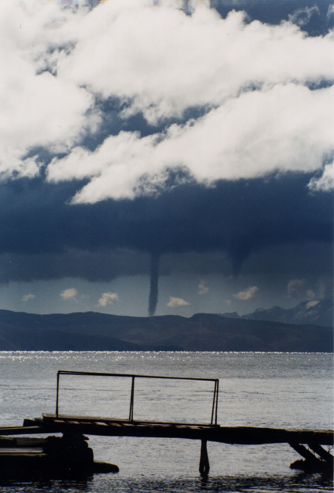 Lake Titicaca, Bolivia.